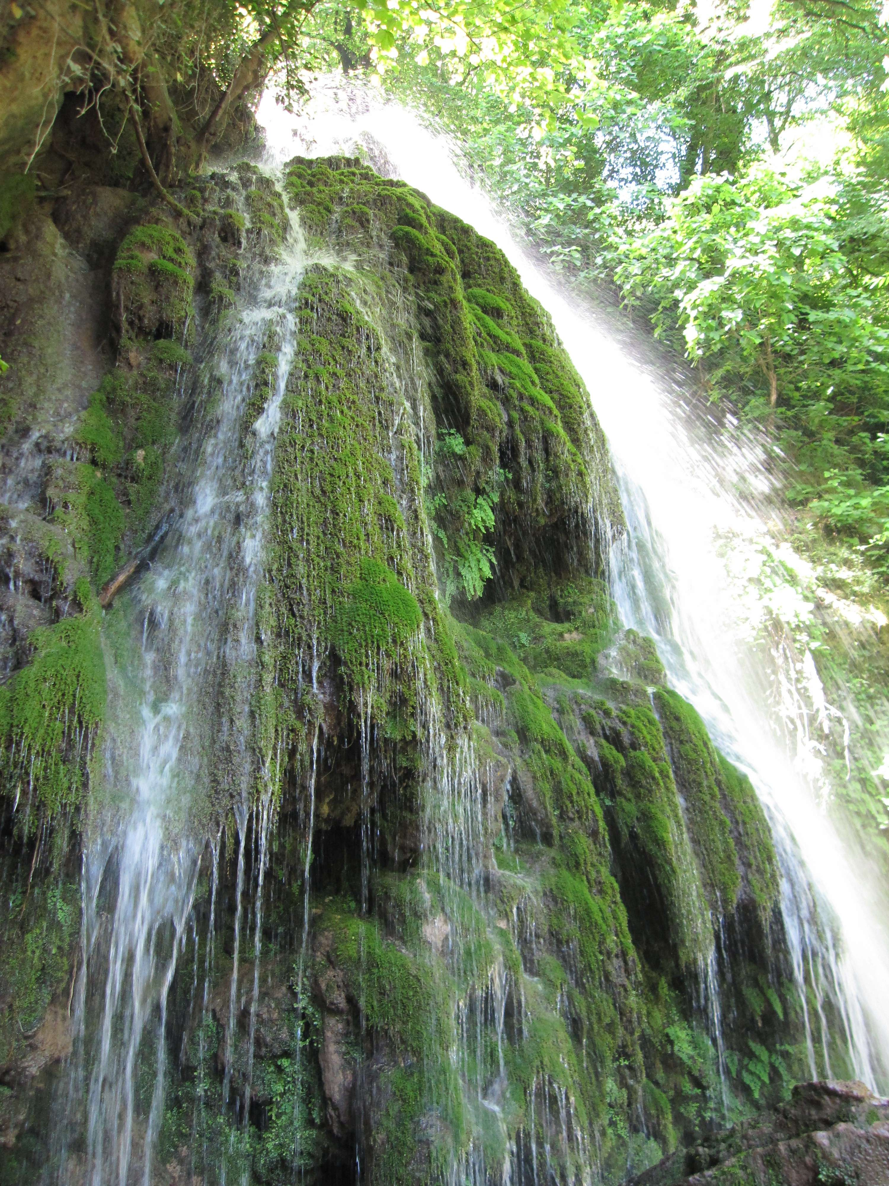 Iran - Golestan - Aliabad Katoul - Kaboudwall Waterfall - Information in Page 1